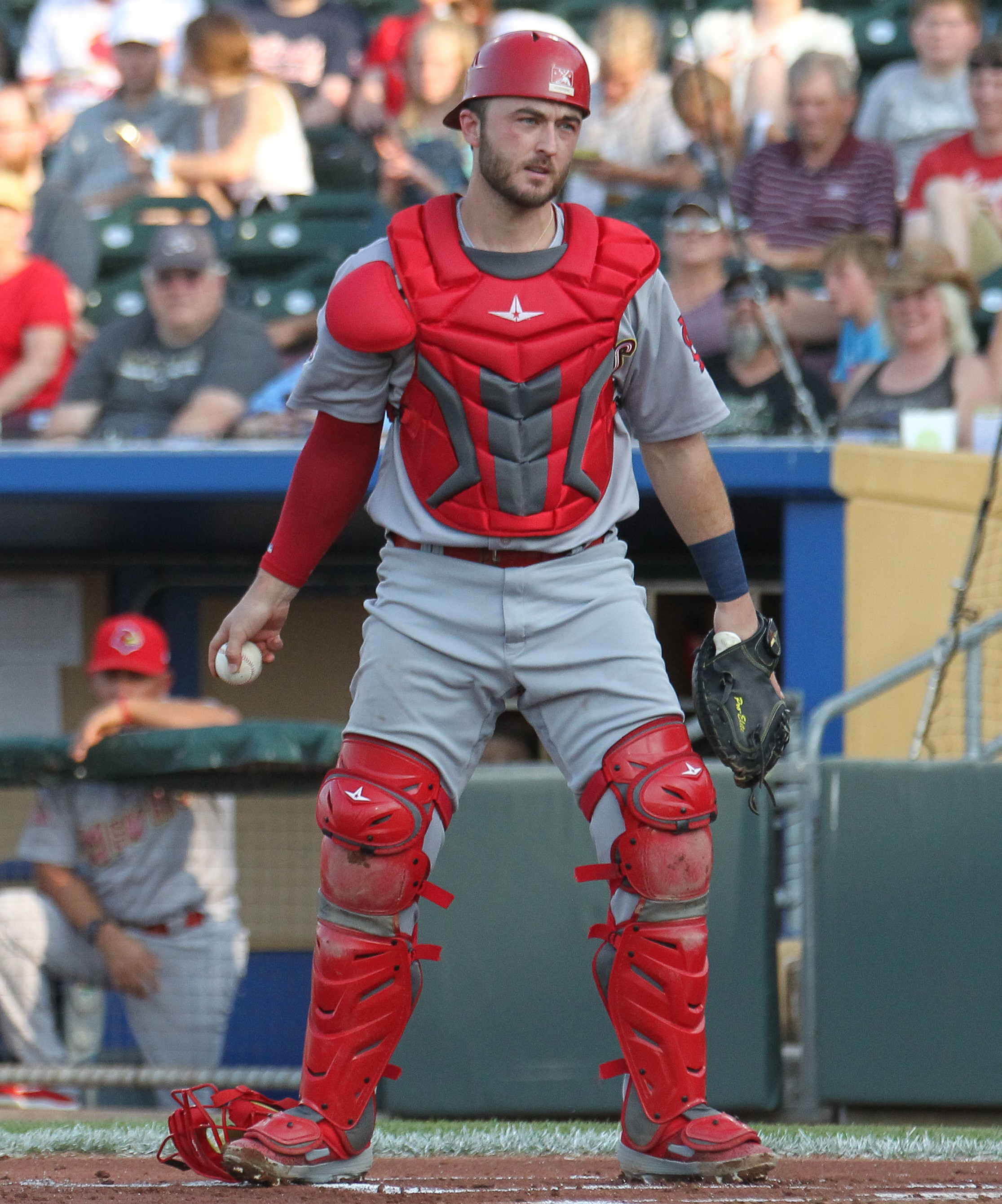 Joe Hudson with the Memphis Redbirds during a 2019 game at Werner Park in Nebraska